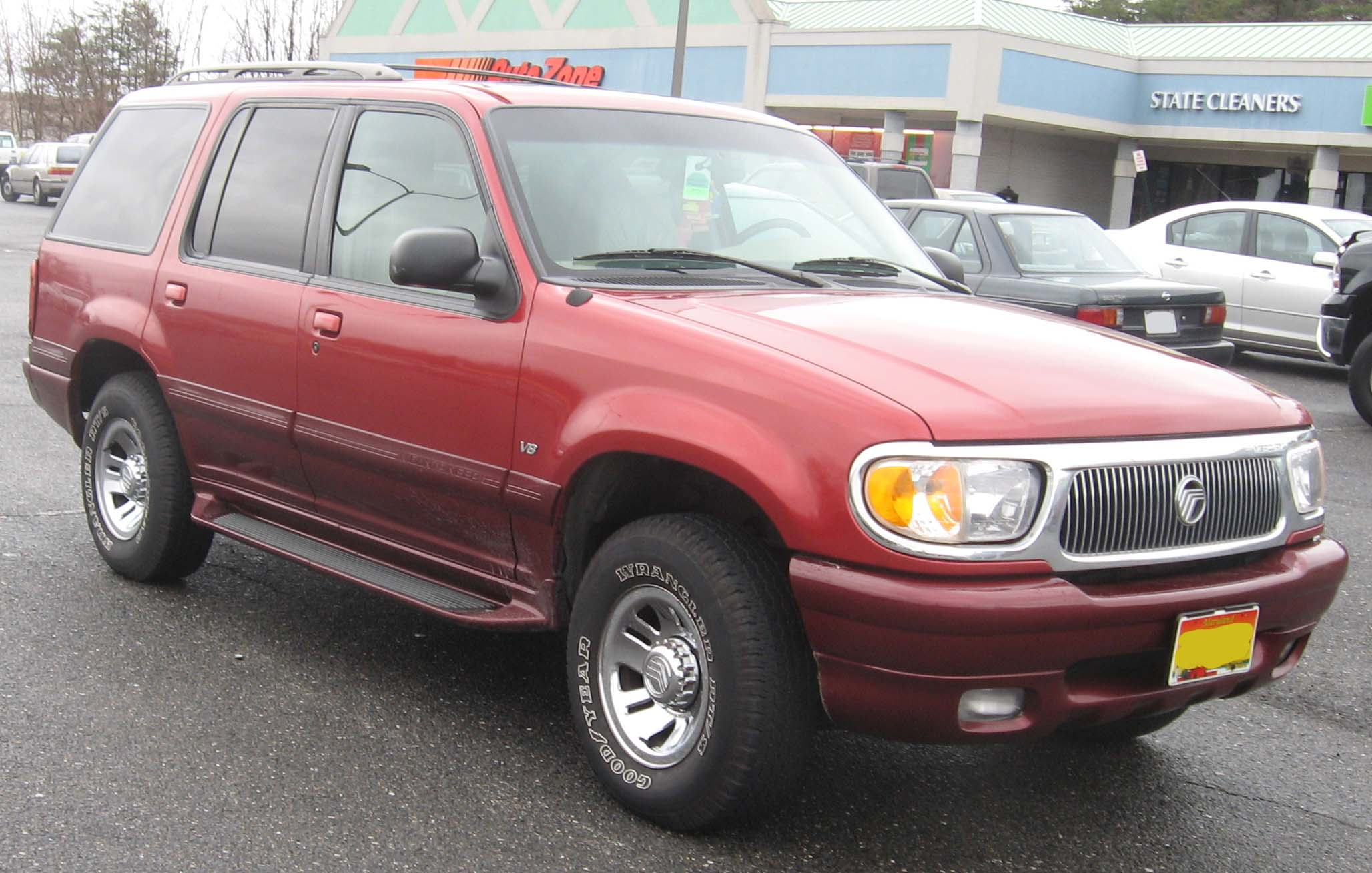 1998-2001 Mercury Mountaineer photographed in Fort Washington, Maryland, USA.